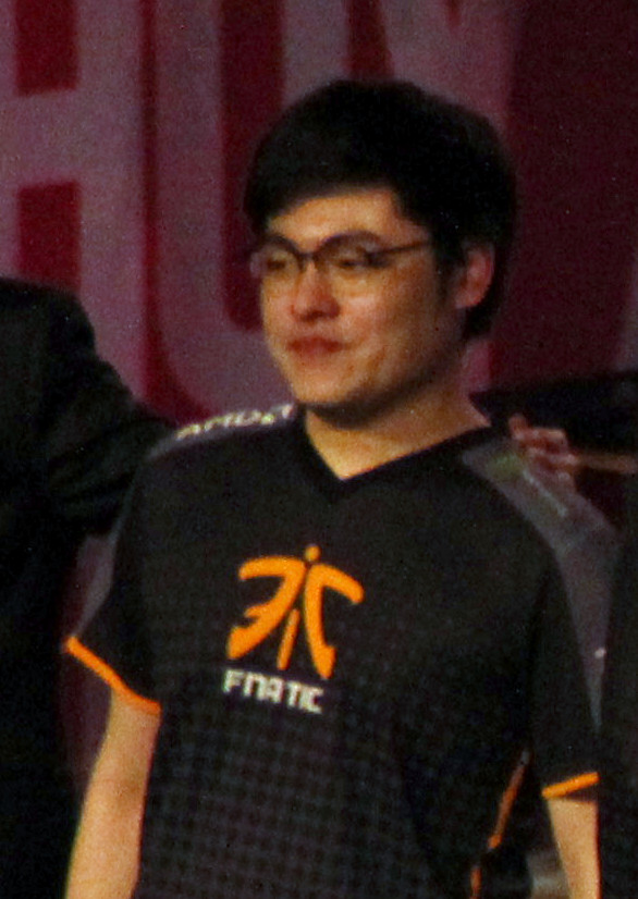 Gamsu at EU LCS 2016 Finals